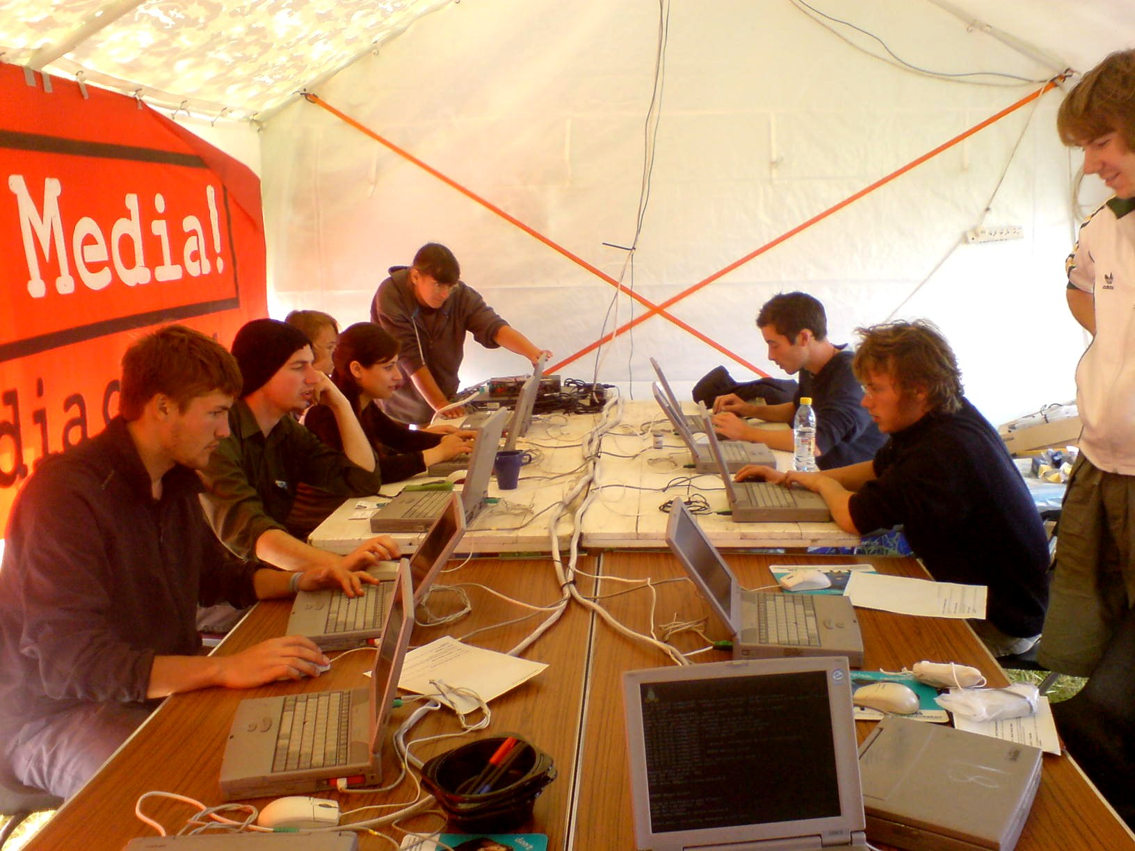 The inside of the media tent and the climate camp in Heathow. 10 workstations, with live satellite up-link and powered from renewables.